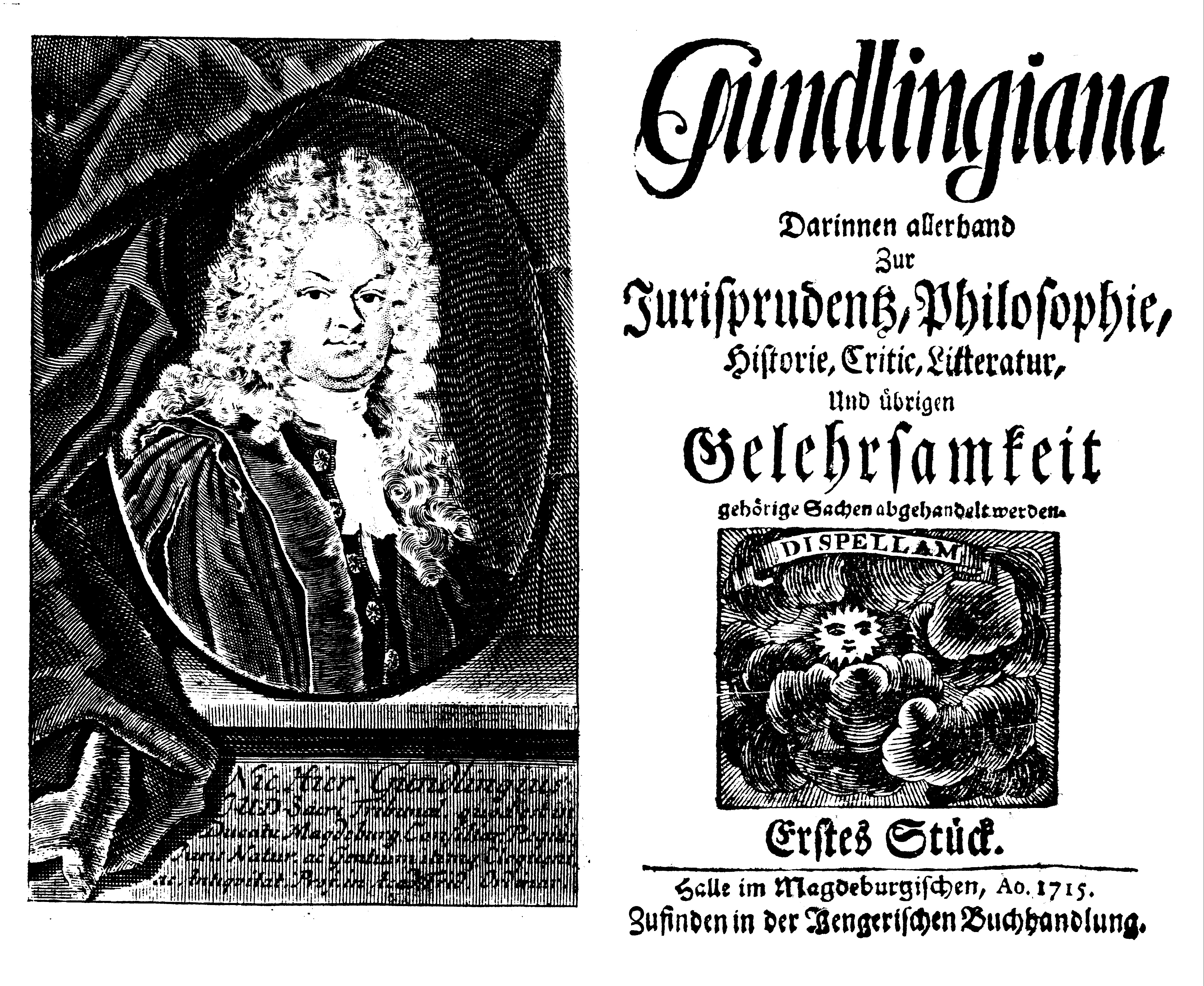 Frontispiece and title page of the first issue of Nicolaus Hieronymus Gundling's Journal Gundlingiana Halle: Rengerische Buchhandlung, 1715.